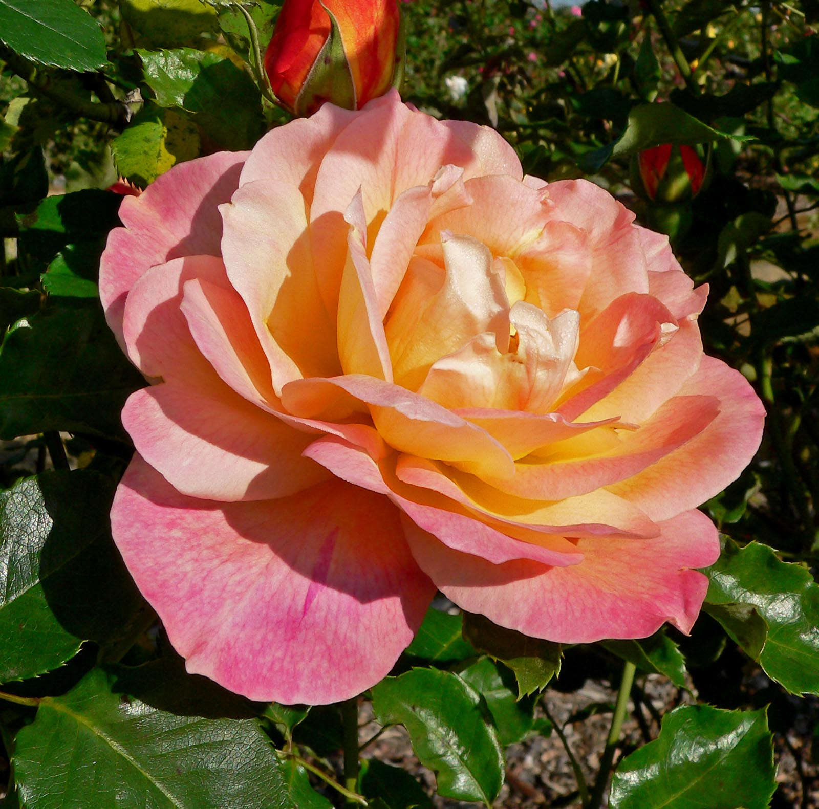 Photo of Rosa 'Girona' at the San Jose Heritage Rose Garden